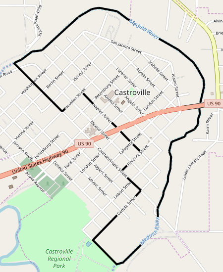 Map showing the boundaries of the Castroville Historic District in Castroville, Texas, United States. The historic district is listed on the National Register of Historic Places. Boundaries are derived from a map produced by the Texas Historical Commission.